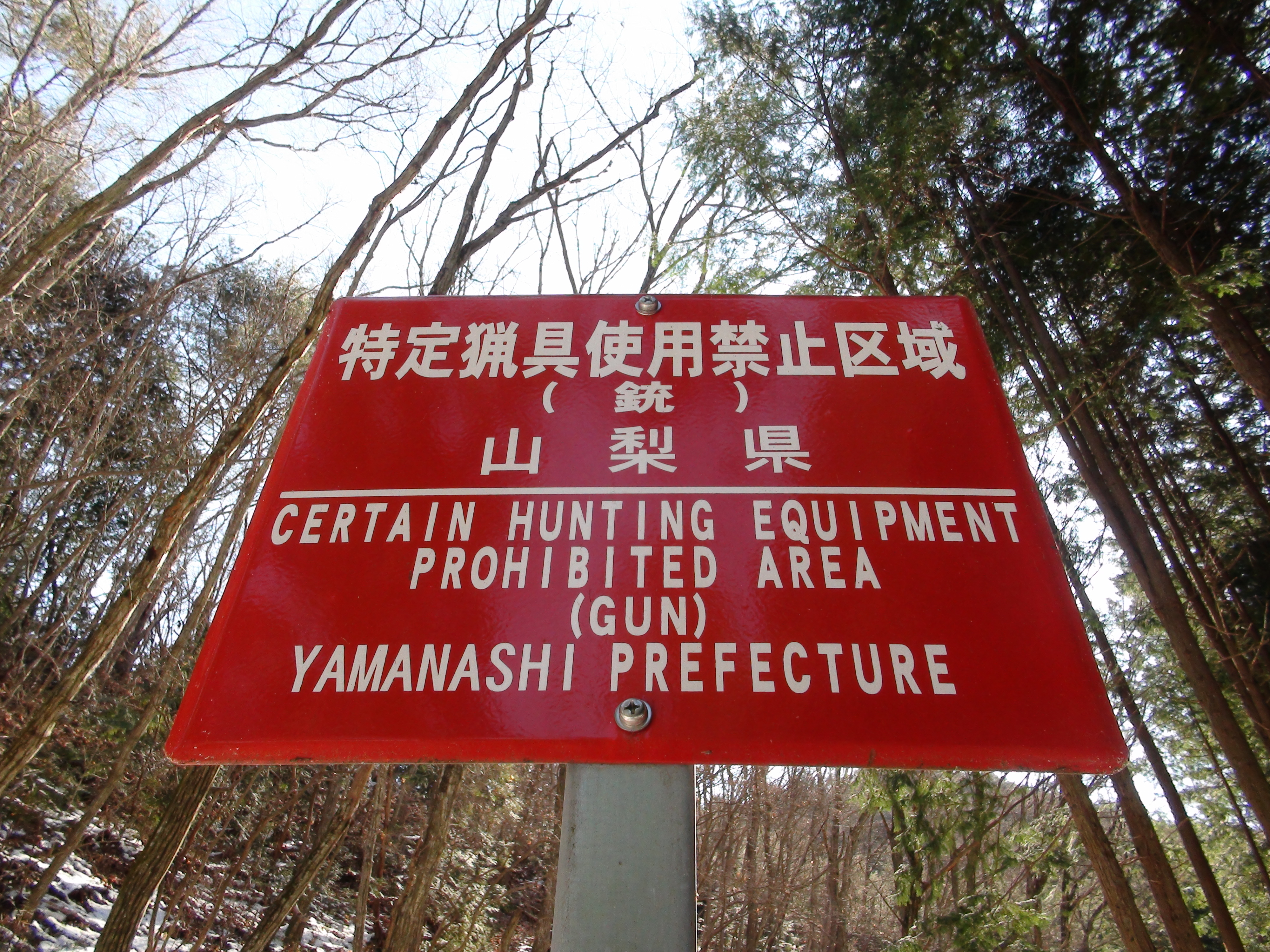 Signboard of Certain Hunting Equipment Prohinited Area (Gun)